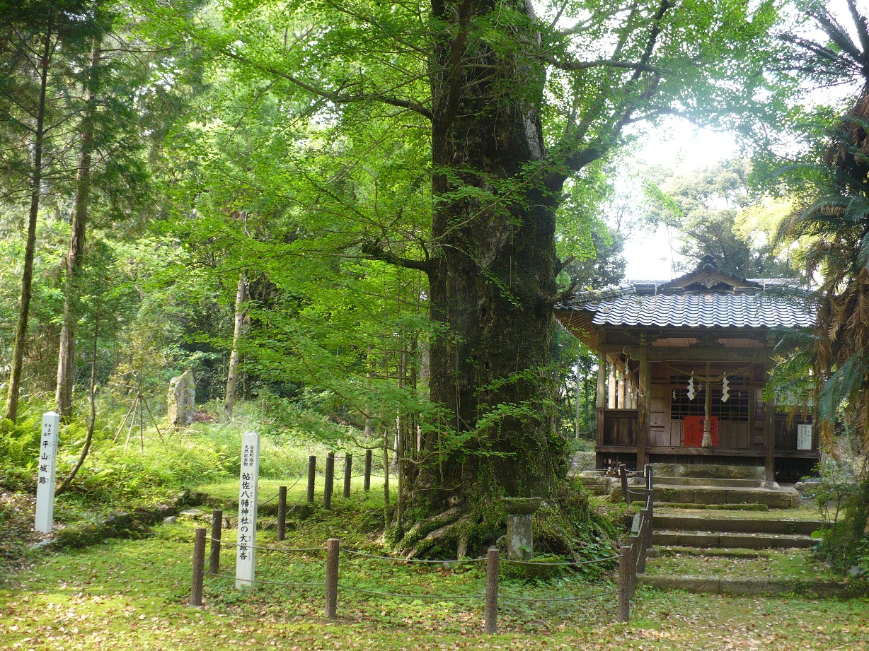 The gingko tree which is about 800 years old, standing before Chosa hachiman shrine, Aira town Kagoshima prefecture, Japan